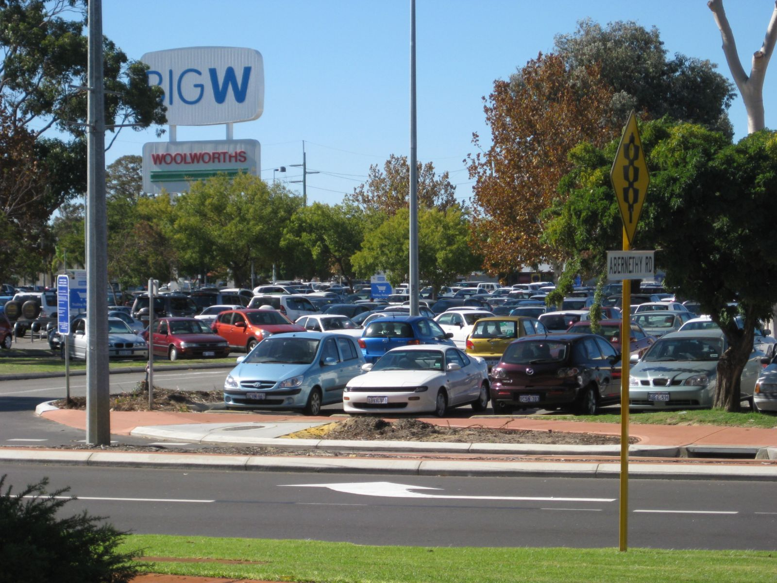 Belmont Forum Shopping Centre in Cloverdale, suburb of Perth, Western Australia. Cars shown in the front row are Hyundai Getz, Toyota Celica SX (ST184), Mazda3 Hatchback, and Daewoo Lacetti.